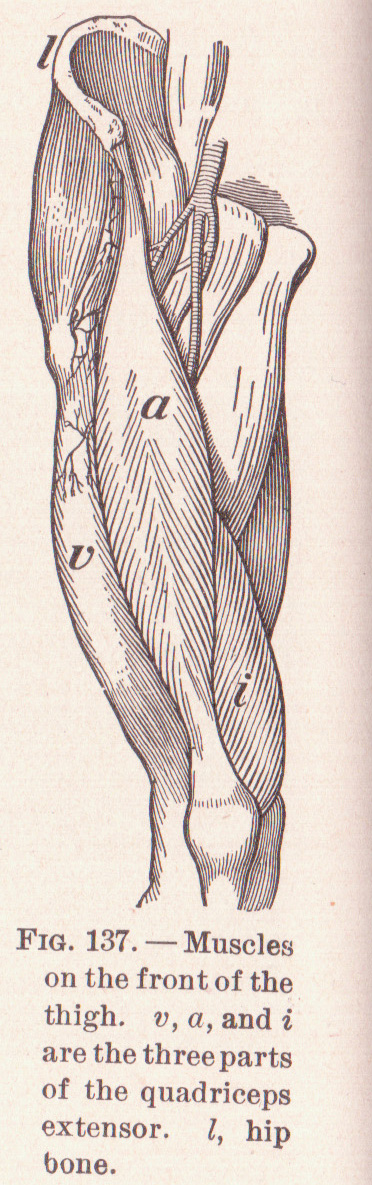 From the book The Human Body and Health Revised by Alvin Davison, published in 1908 by Alvin Davison. This book has a copyright of 1908 by Alvin Davison and one in 1924 by American Book Company. The copyright was never renewed and therefore should be in the public domain. This is an illustration of the muscles in the thigh. Flickr data on 2011-08-17: Tags: vintage, book, medical, image, illustration, drawing, public domain, copyright free License: CC BY 2.0 User: perpetualplum Sue Clark